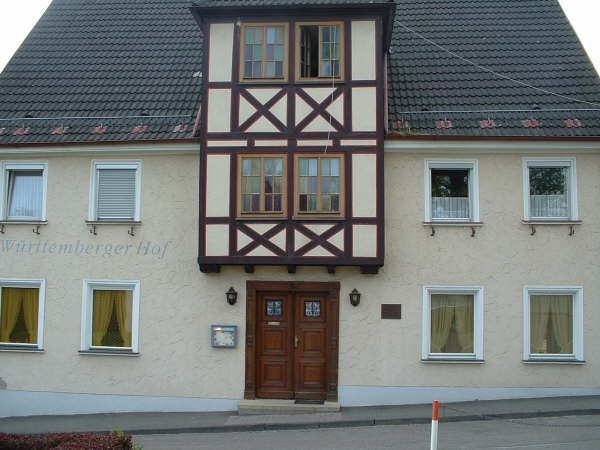 Building of former Rabbi's office, Laupheim